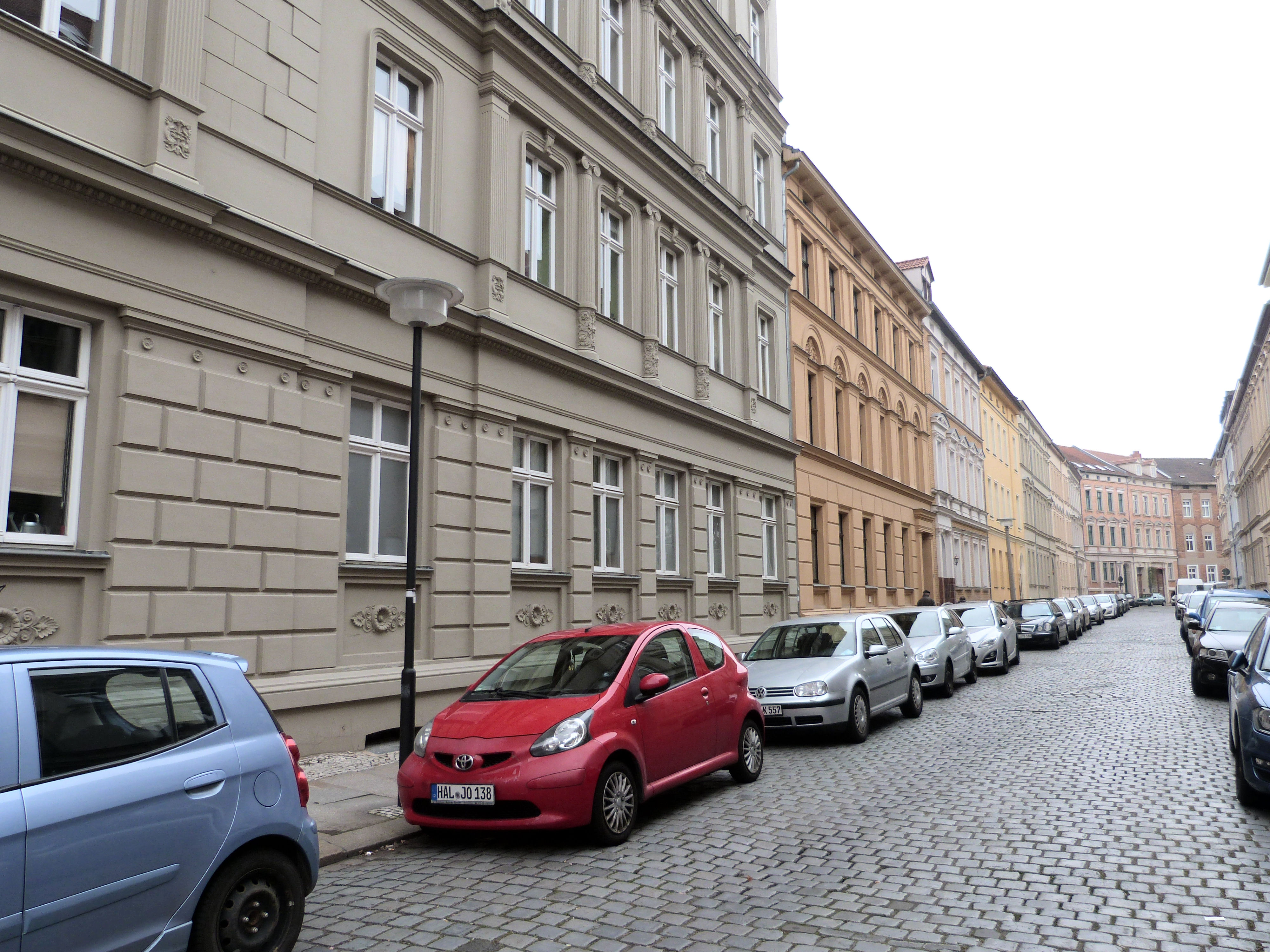 Street Laurentiusstrasse in Halle (Saale)